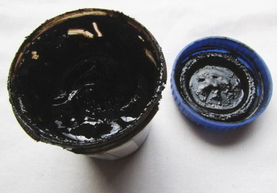 Pots with ambil